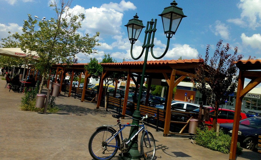 agora